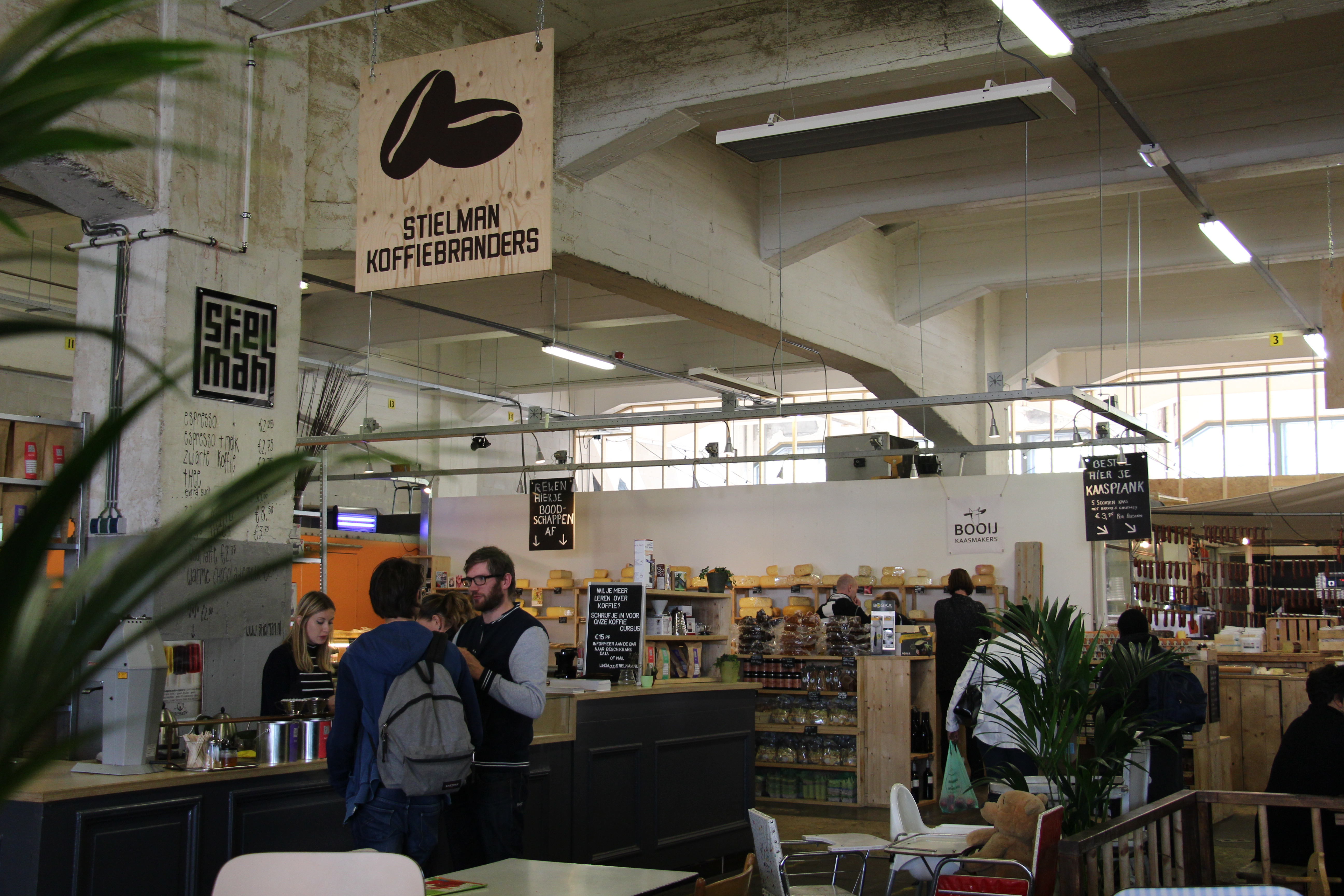 Katendrecht. Veerlaan Previously called the San Francisco warehouse, the structure has two levels with floor heights of six metres, and was originally 360 metres in length. Construction of the San Francisco warehouse was necessitated by the considerable expansion of the fleet and number of routes of the Holland Amerika Lijn. Arch. Cornelis Nicolaas van Goor 1922. Parts of the quay were destroyed towards the end of the Second World War. In 1954 the quay was rebuilt and the warehouses rose from the ashes and were renamed Fenix I and Fenix II. However, port activity relocated westwards in the 1980s and the warehouses were abandoned. In 2007 the city of Rotterdam started to promote the restructuring and transformation of the Katendrecht district. A particularly important element of these efforts was Deliplein, which in recent years has blossomed from a disadvantaged area into a trendy and sought-after neighbourhood. In the summer of 2013 Mei won the architect selection procedure for the design of the new volume and the redevelopment of the warehouse. A mixed programme of housing, workspaces, car park and leisure is planned for the older lower levels. At that time, the Fenix Food Factory was a trendy market, bar and informal restaurant that maybe still remains.